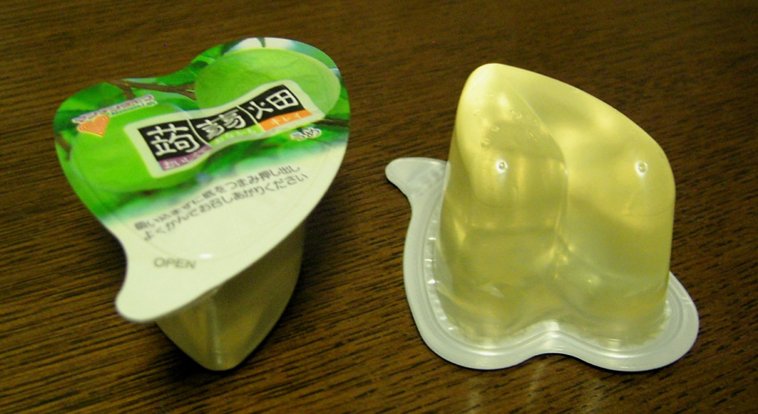 Ume flavored KonnyakuBatake made by MannanLife CO., LTD.